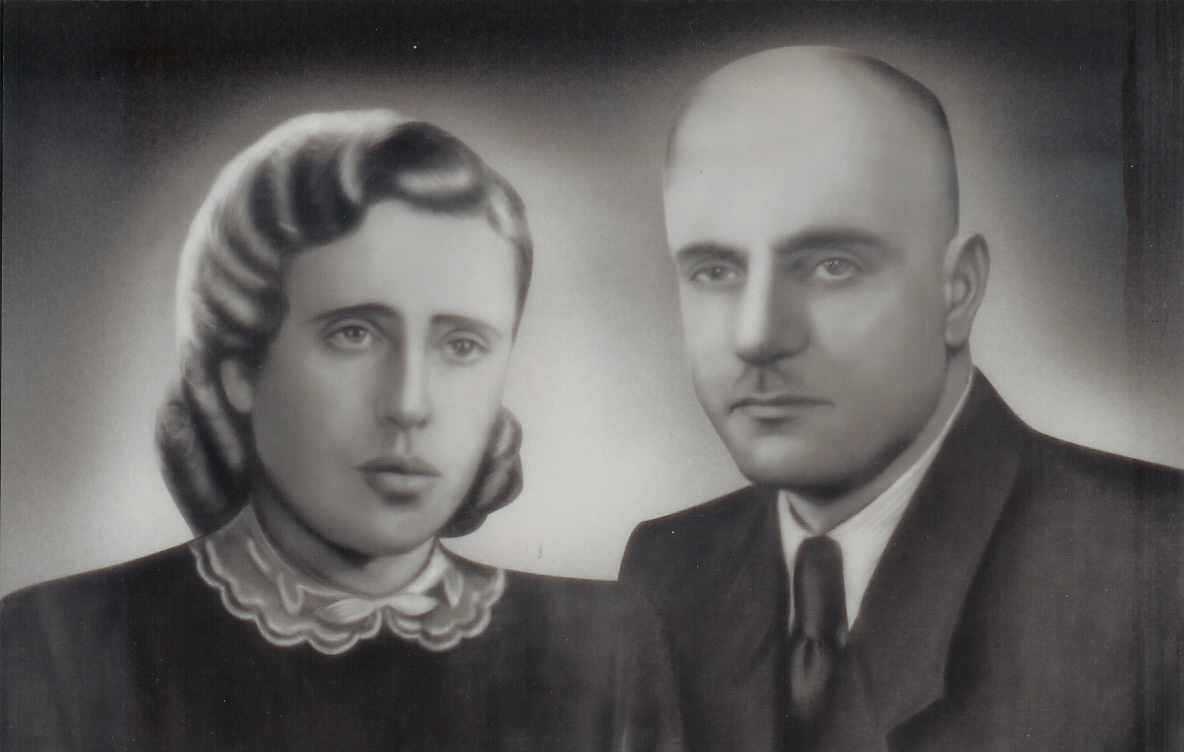 Bronisława and Stanisław Skorek.